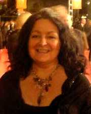 Janey Godley at the BAFTA film awards